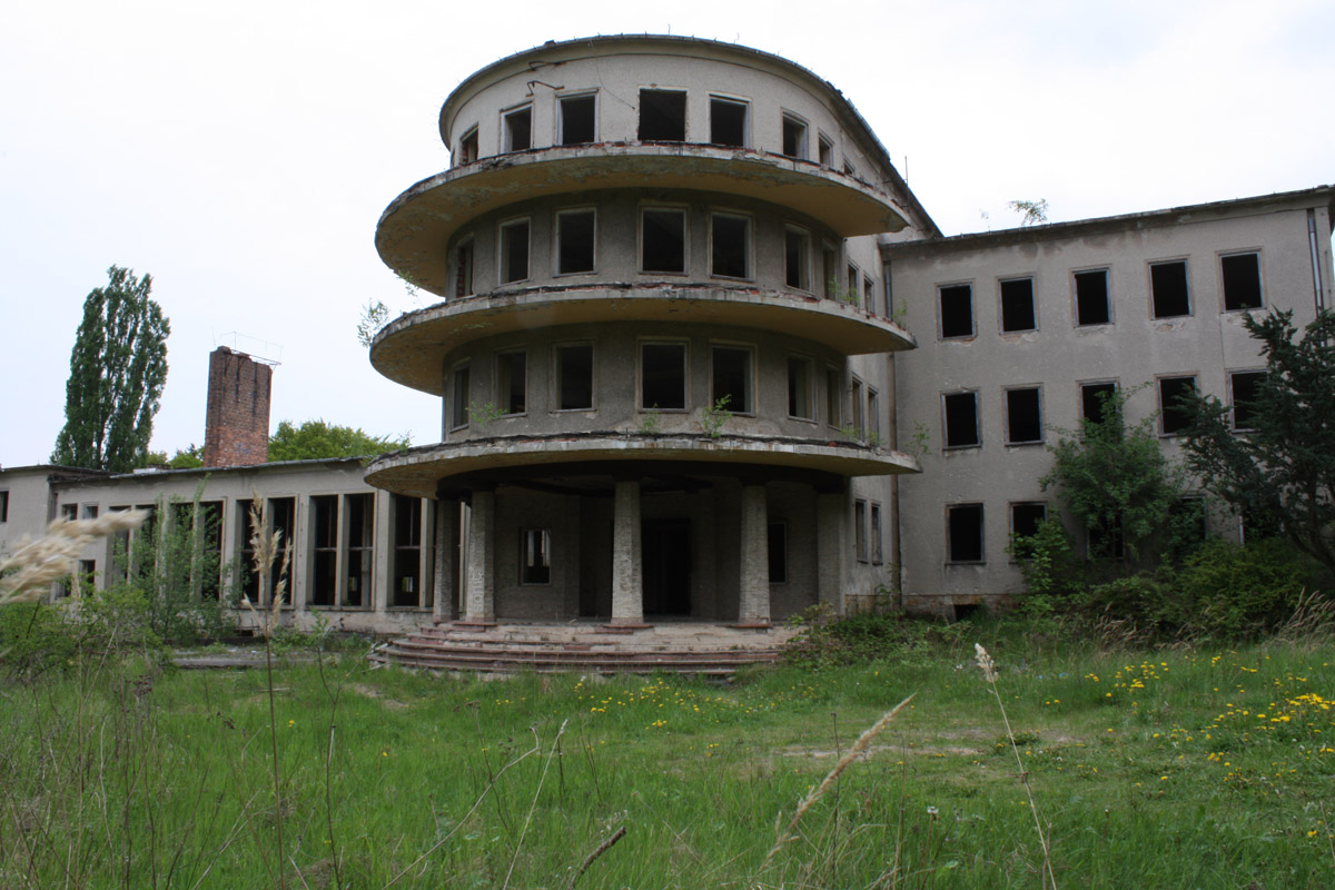 fritz heckert holiday resort, gdr